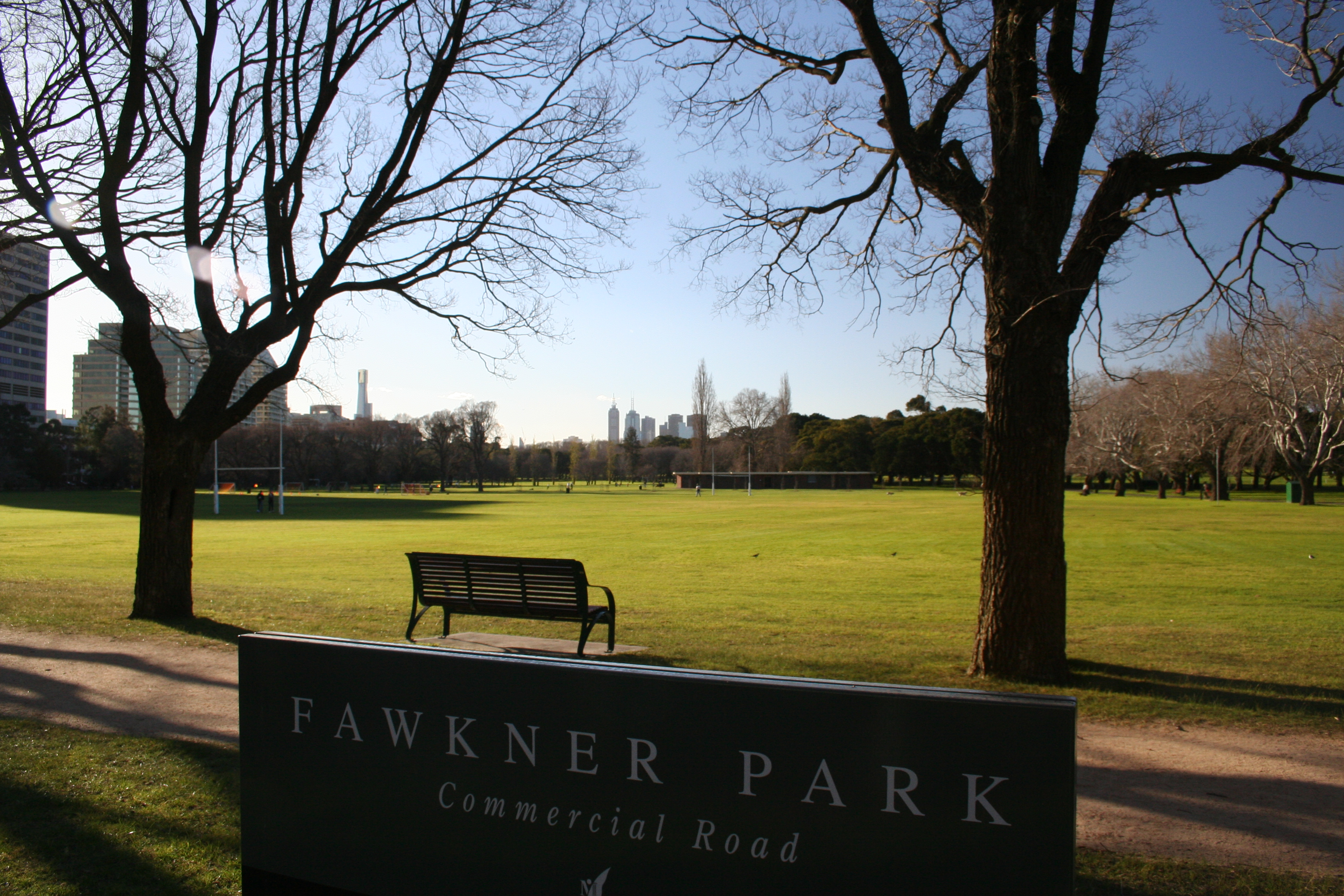 Fawkner Park, South Yarra, Victoria, Australia, with the central business district in the background